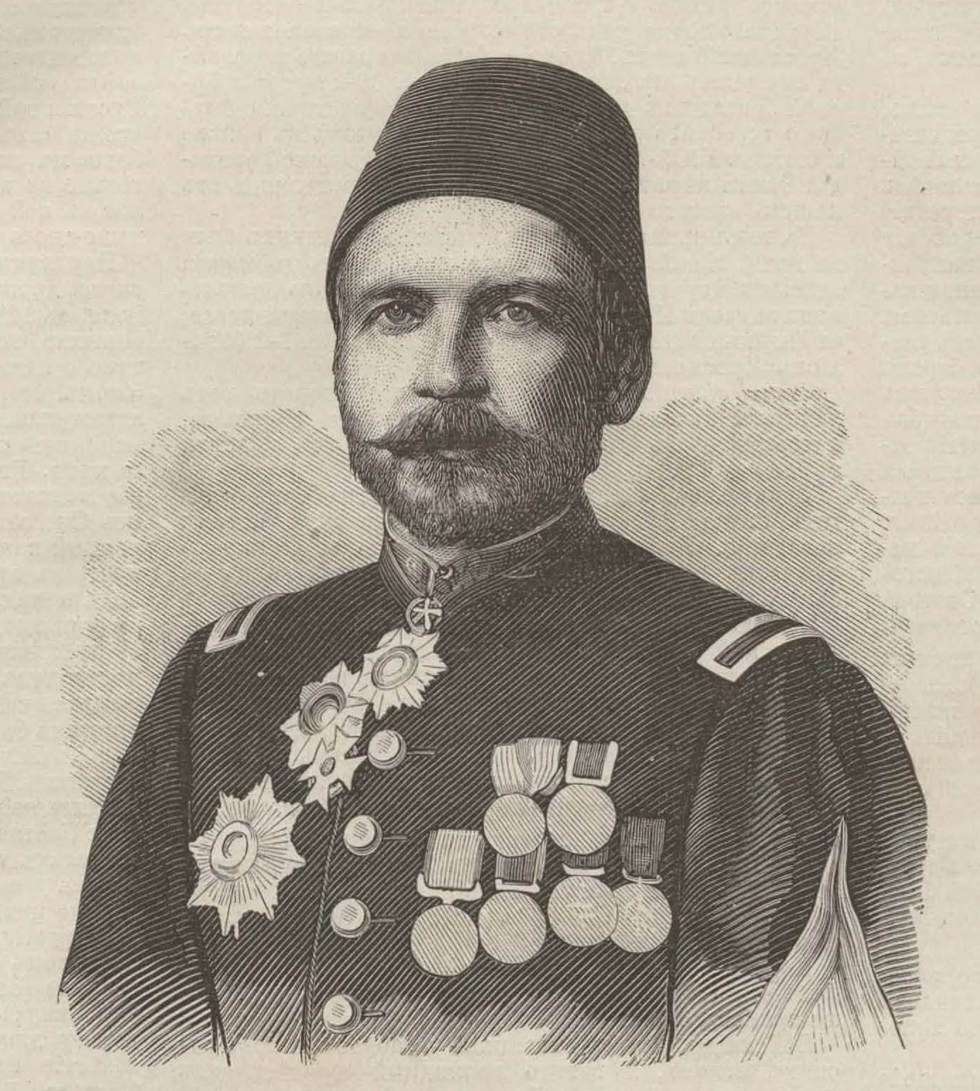 Engraving of Mehmed Ali Pasha